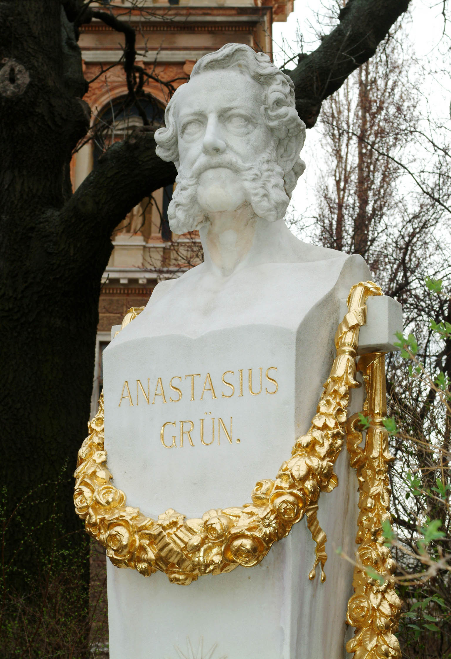 Anastasius Grün - pseudonym for Anton Alexander Graf Auersperg * 11.4.1806 in Ljubljana (Ljubljana, Slovenia). Austrian poet. The monument is located in Vienna 1., Schillerplatz.